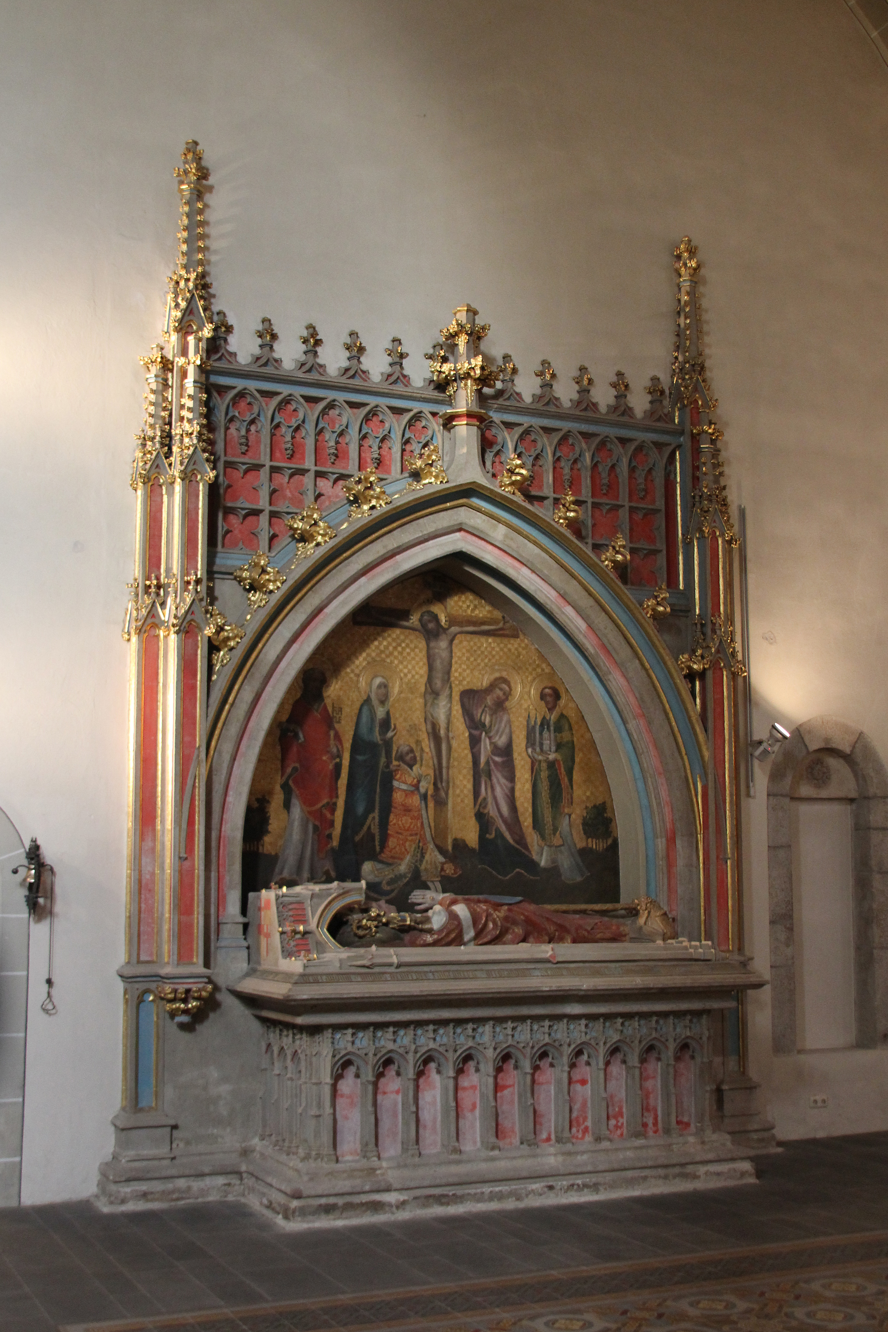 Basilica of St. Castor in Koblenz